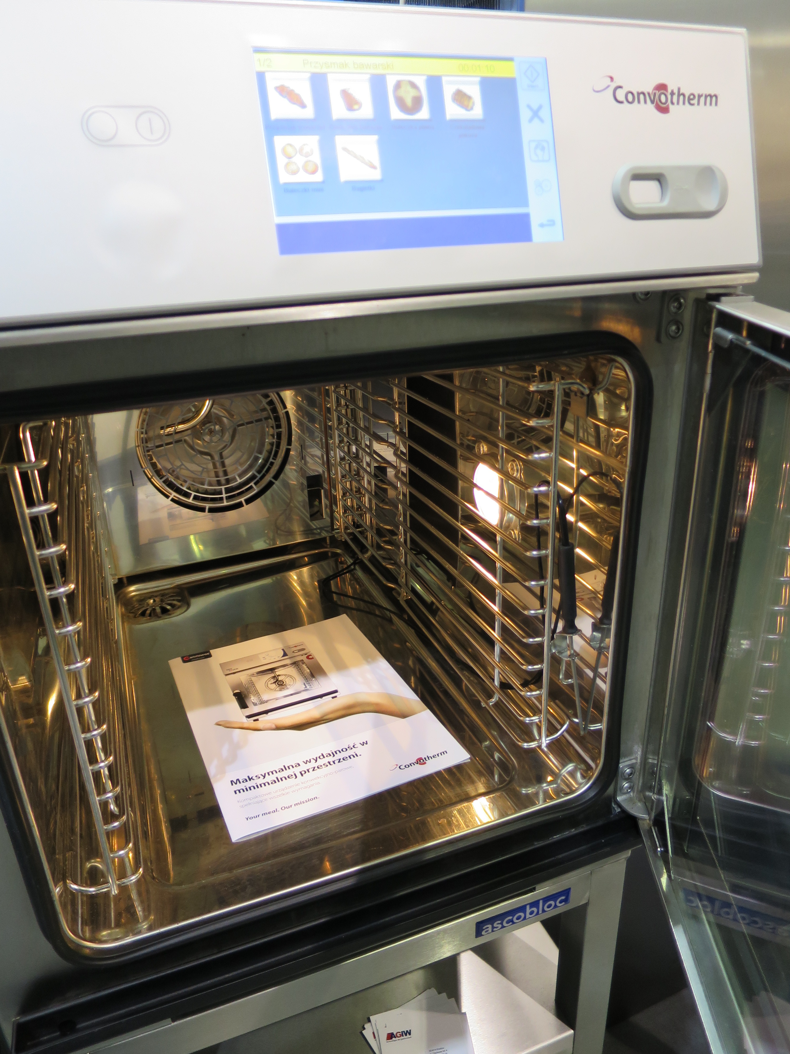 Piec konwekcyjno-parowy Convotherm The making of this document was supported by Wikimedia Polska Association, within Wikigrant no. WG 2015-48.